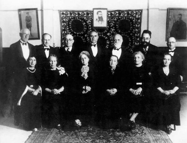 Chairmen of B'nai B'rith in Jerusalem. From right to left: Mordechai Kaspi and his wife, Rabbi Simcha Asaf and his wife, David Yellin and his wife, Ita (from the Pines family), Moshe Dochan and his wife, Loybov (from the Stralsov family), Yehiel Michael Rabinovich, Judge Gad Fromkin and his wife, Hanna (from the Eisenberg family in Rehovot).